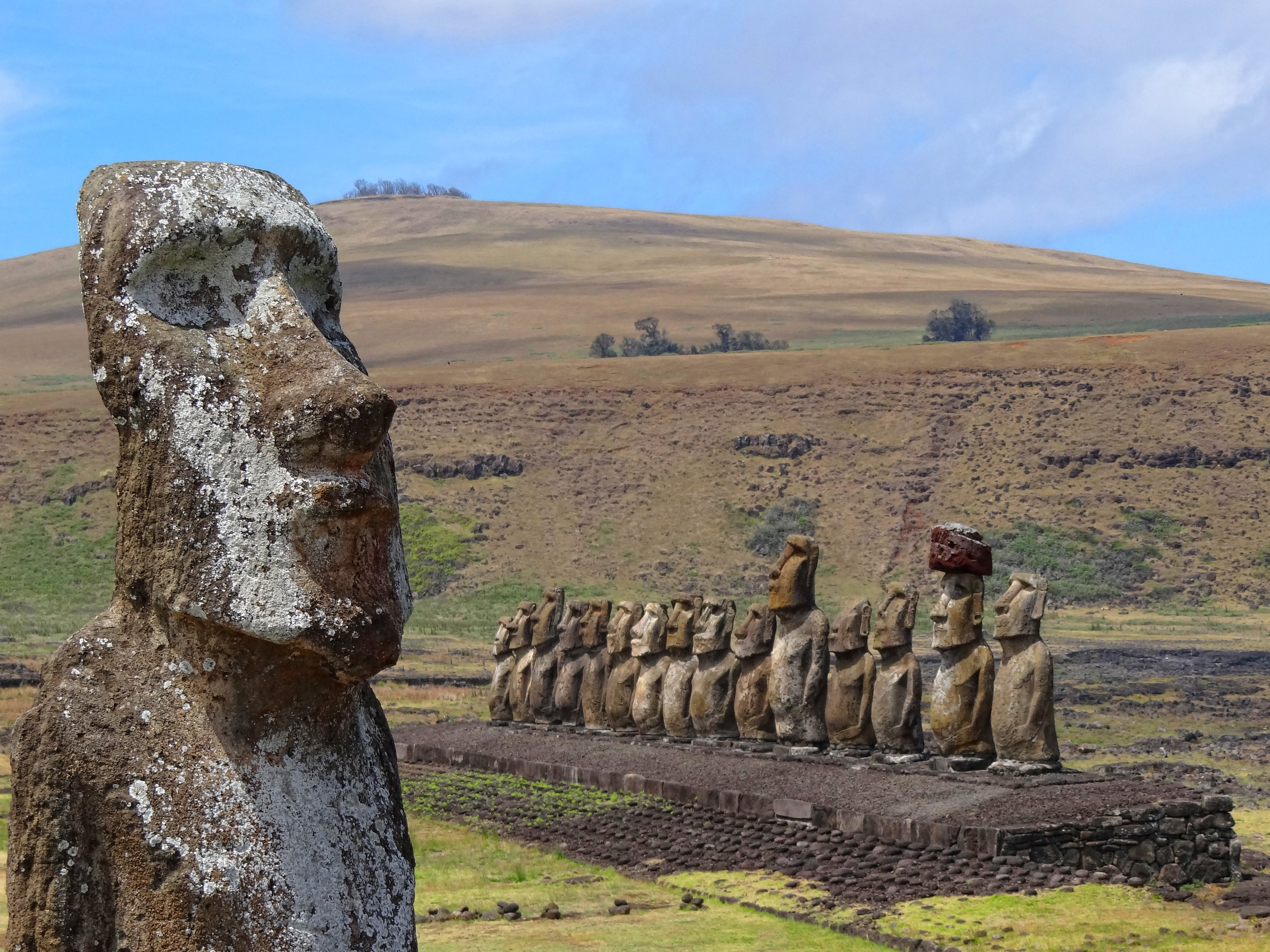 At the Ahu Tongariki you are welcomed by The Traveling Moai in the foreground here. It received its name because he has traveled more than most moai. The explorer Thor Heyerdahl used him to test various theories about how the moai could "walk" from Rano Raraku to their spots around the island. In addition to that, he went to Japan for a world fair there. The people of Easter Island almost never let a moai leave the island, but they made an exception because the Japanese helped them erect the statues in the back, following a terrible tsunami in the 1960s. But now he's back, and here he will stay.